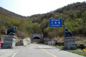 Hwaak Tunnel for Before 2004, Hwacheon County, Gangwon Province